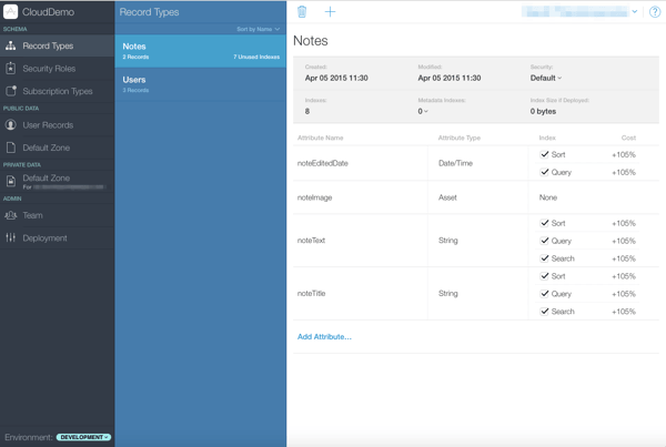 this is view of cloudkit